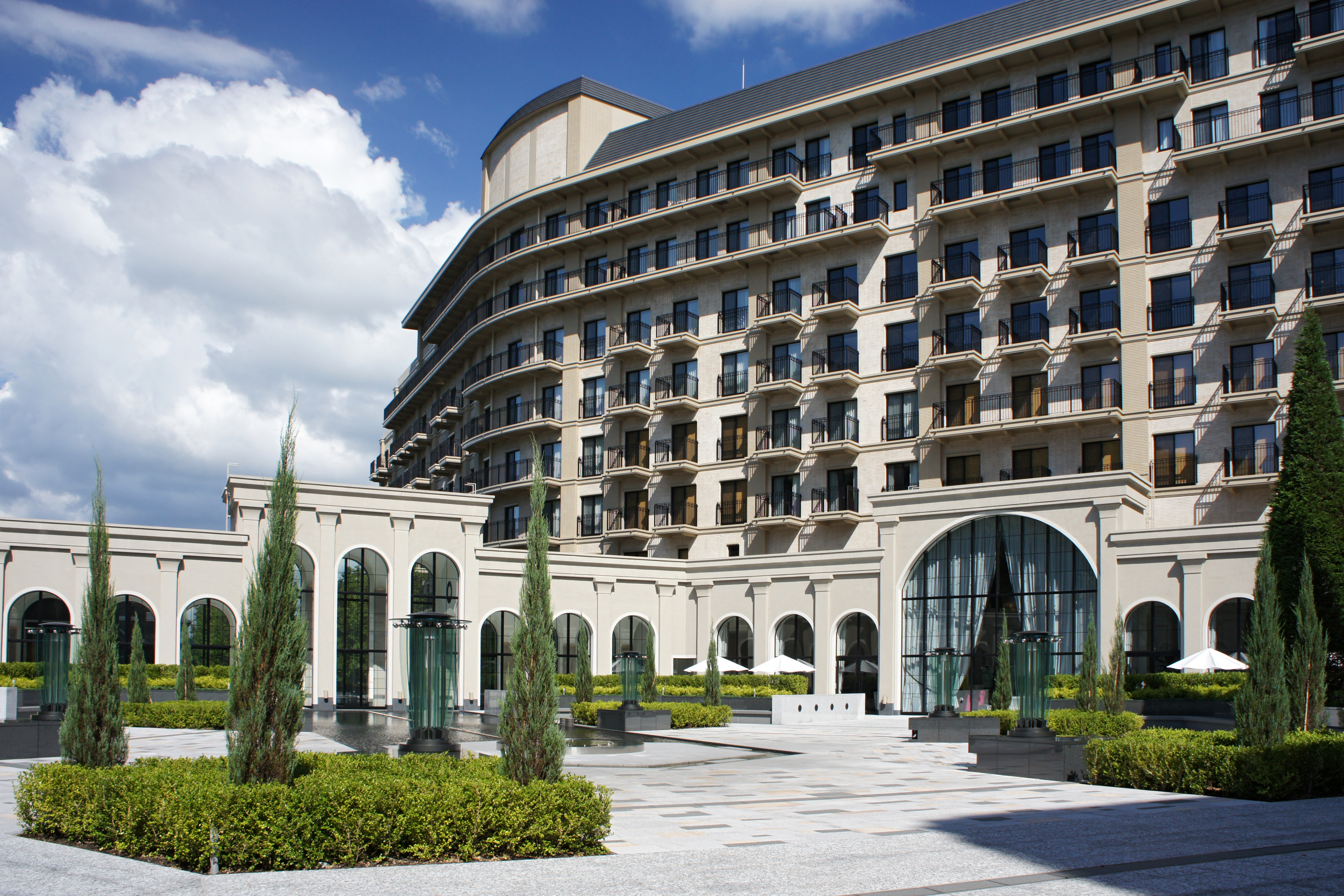 XIV Arima Rikyu in Kobe, Hyogo prefecture, Japan